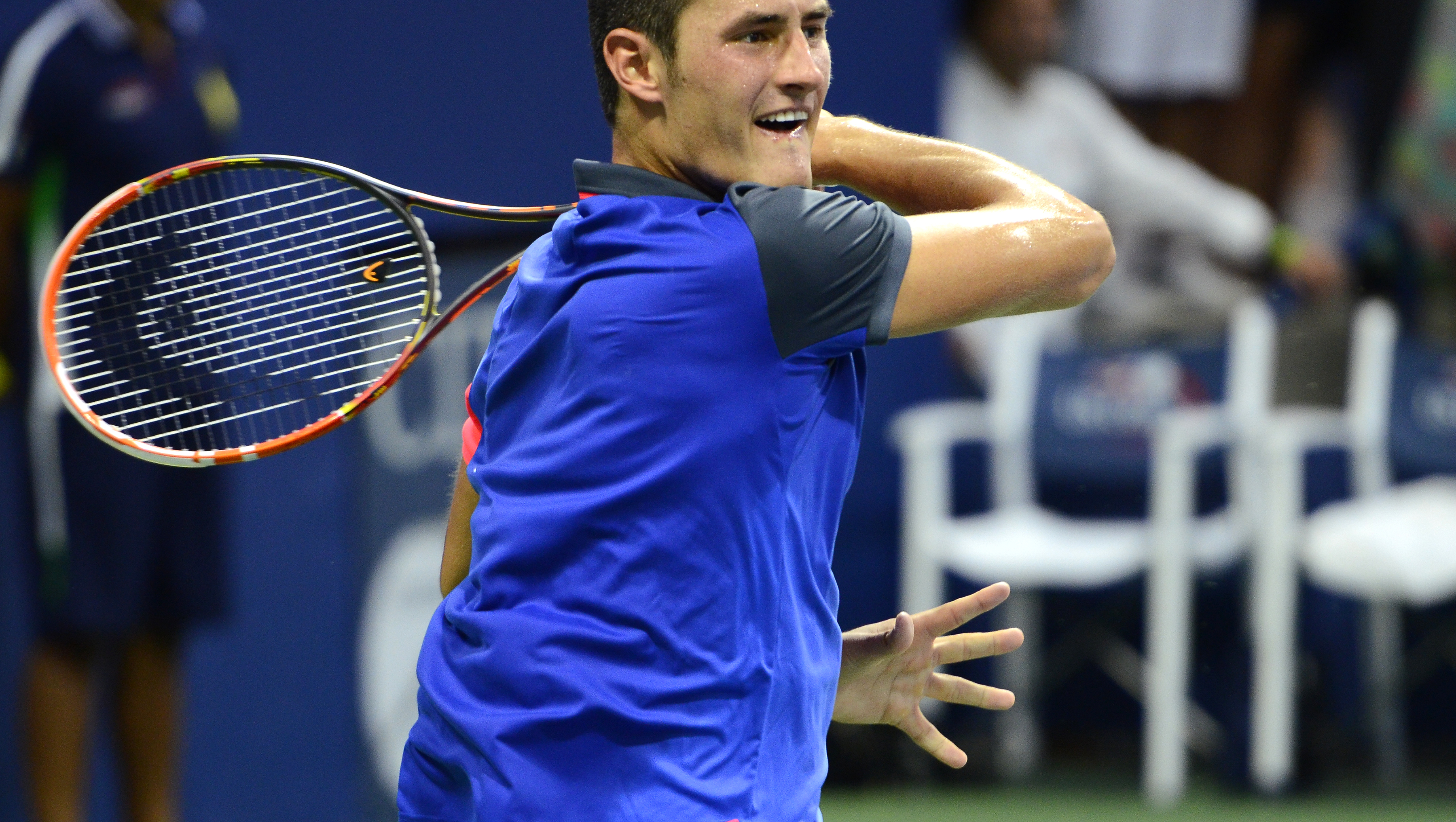 August 26, 2014 Queens, NY Bernard Tomic (AUS) def. Dustin Brown (GER)